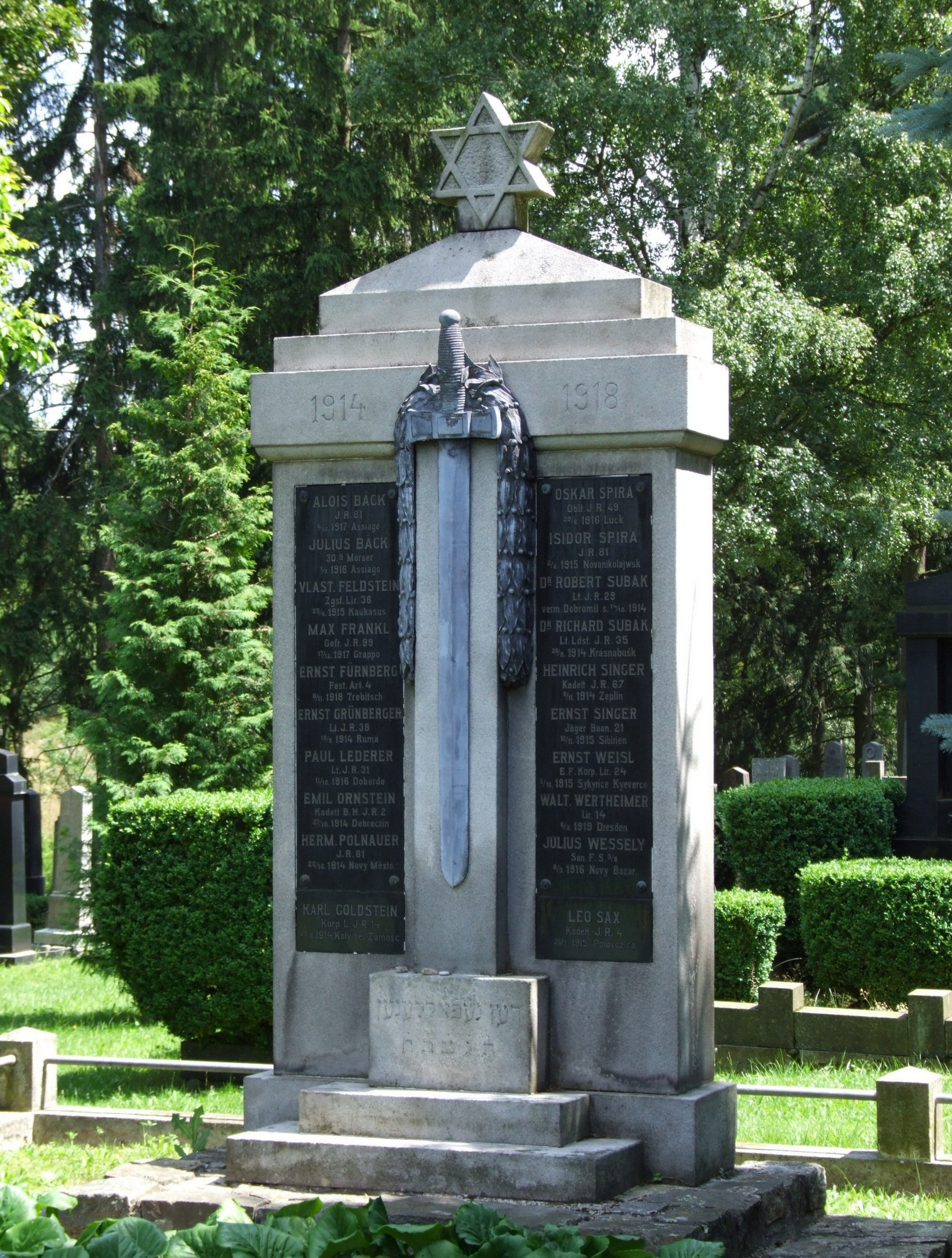 Jewish cemetery in Třebíč (Trebitsch) - World War I monument